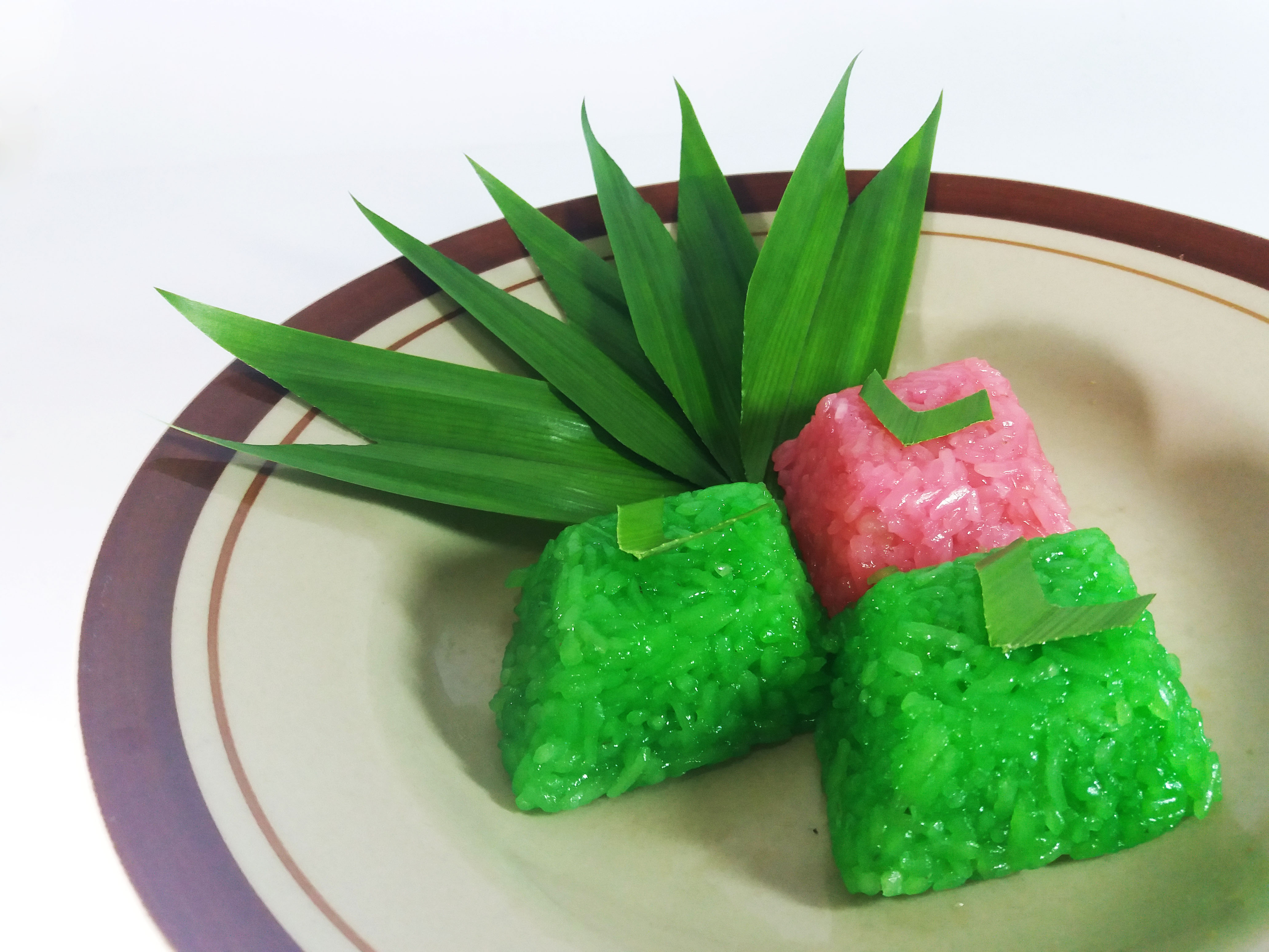 Wajik is traditional cake from Indonesia. This cake is made from sticky rice.